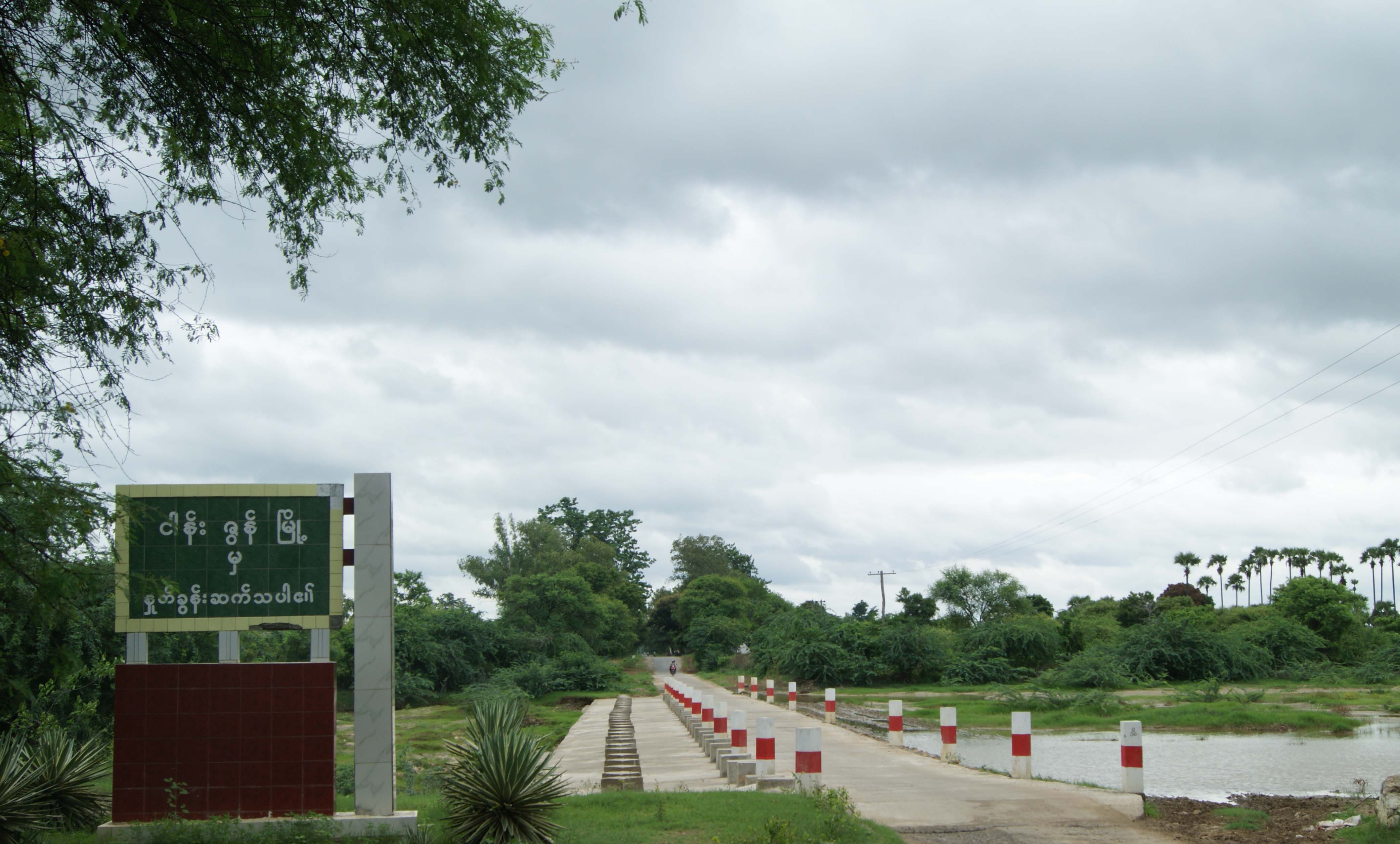 ငါန်းဇွန်မြို့အ၀င်